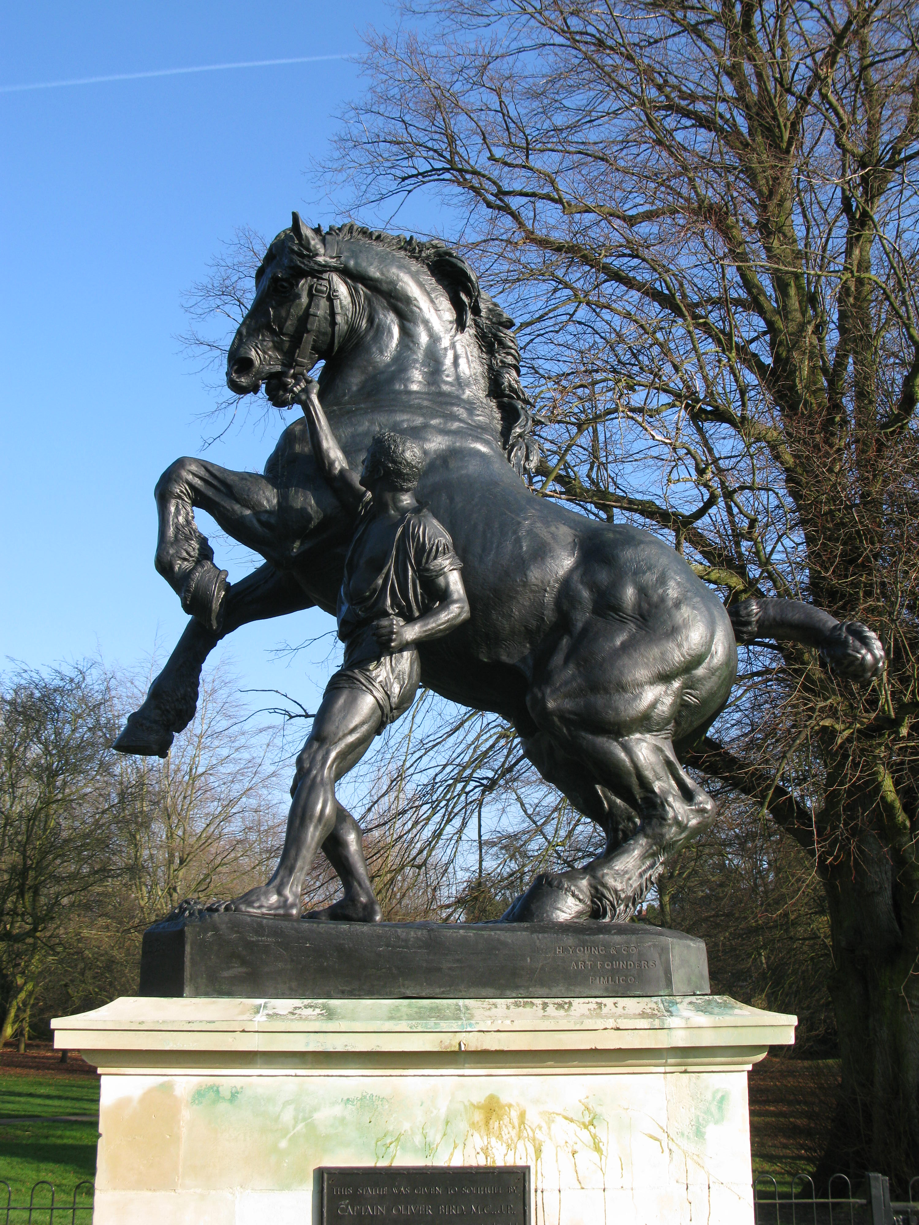 Grade II